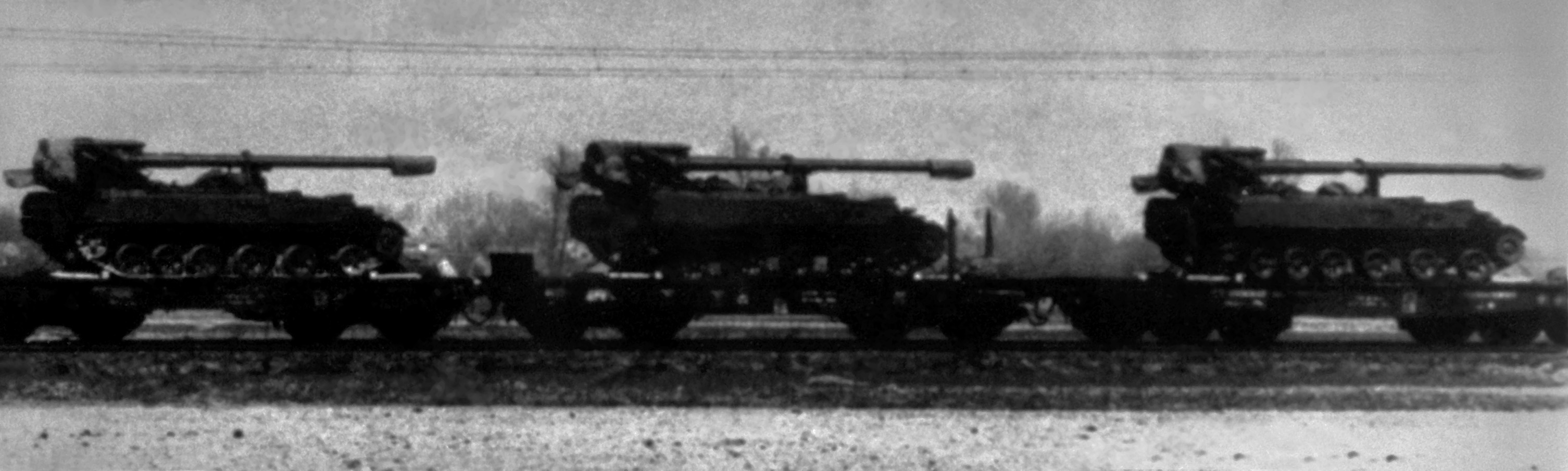 Side view of three Soviet 152mm self-propelled guns 2S5 "Giatsint-S" being transported on rail. "Soviet Military Power," 1983, Page 40.